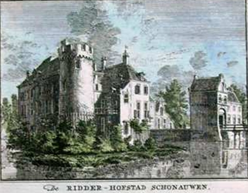 The Castle of Schonauwen painted by Hendrik Spilman